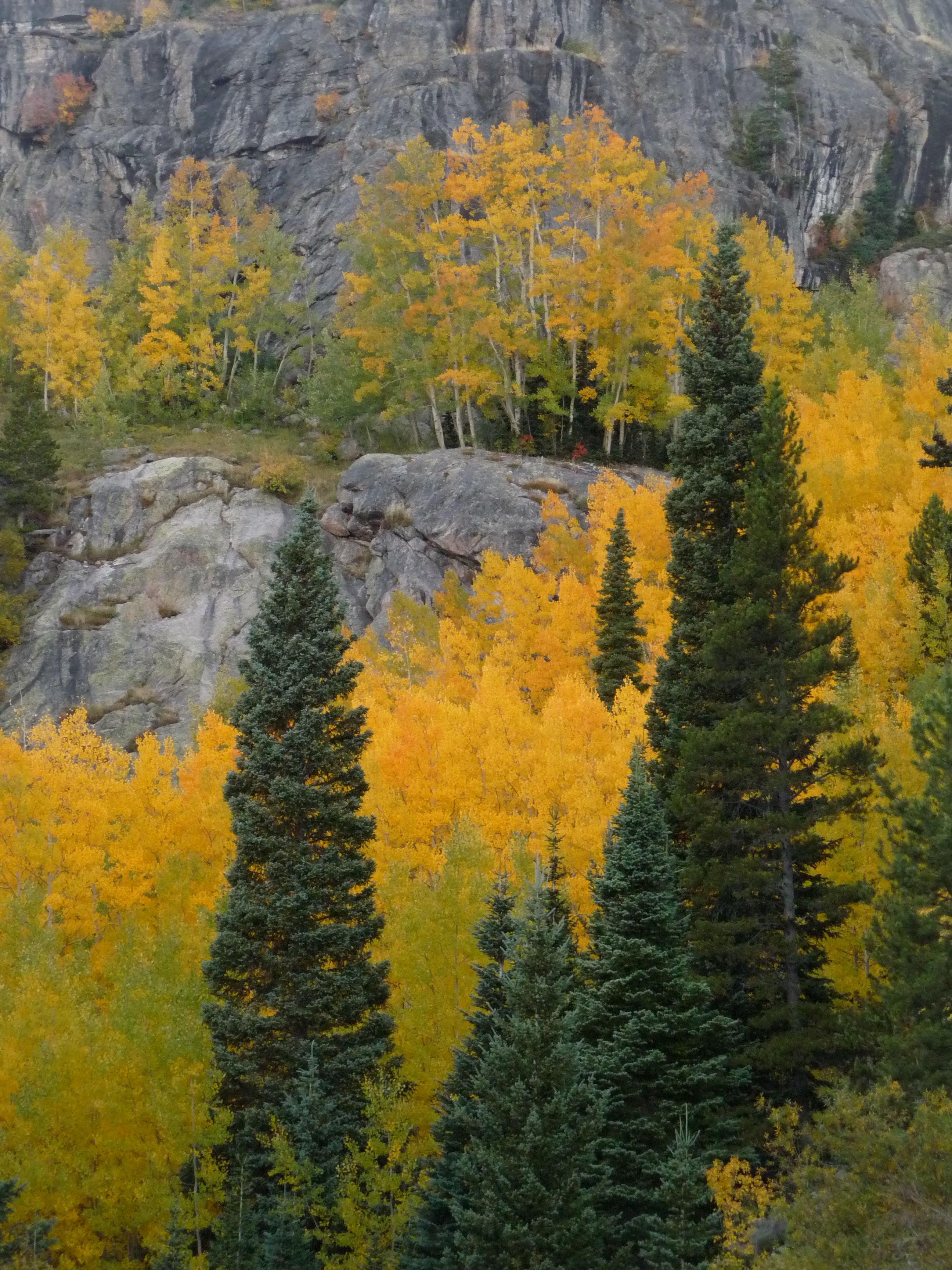 See file name